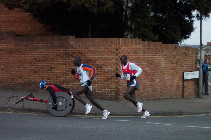 In the 2005 Reading Half Marathon, held in Reading in England, the eventual winner, Julius Kimutai chases down Malack Olemengera and a wheelchair athlete, at the corner between Russell Street and Tilehurst Road.